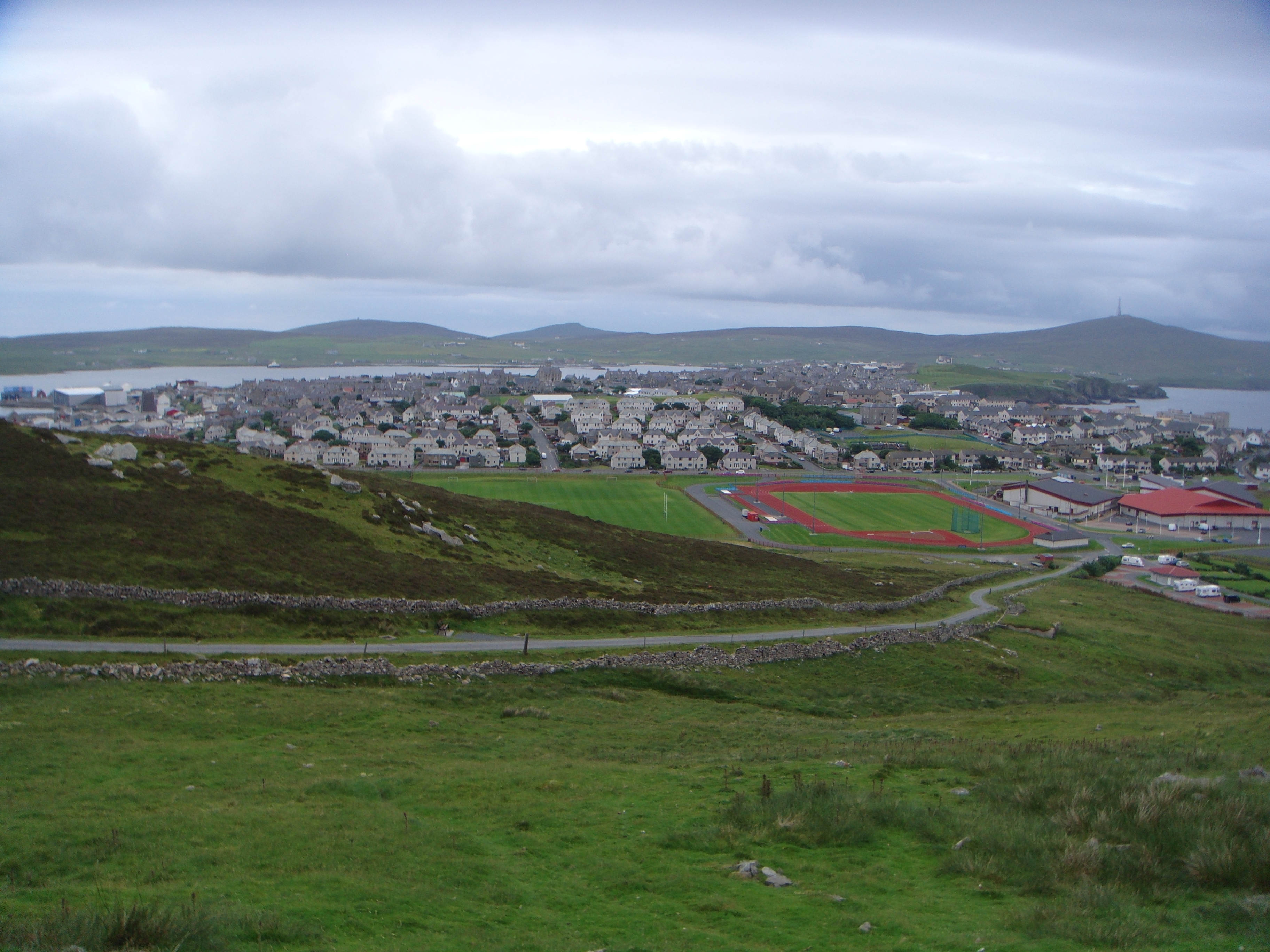 Photo of Lerwick (Shetland) from nearby hill